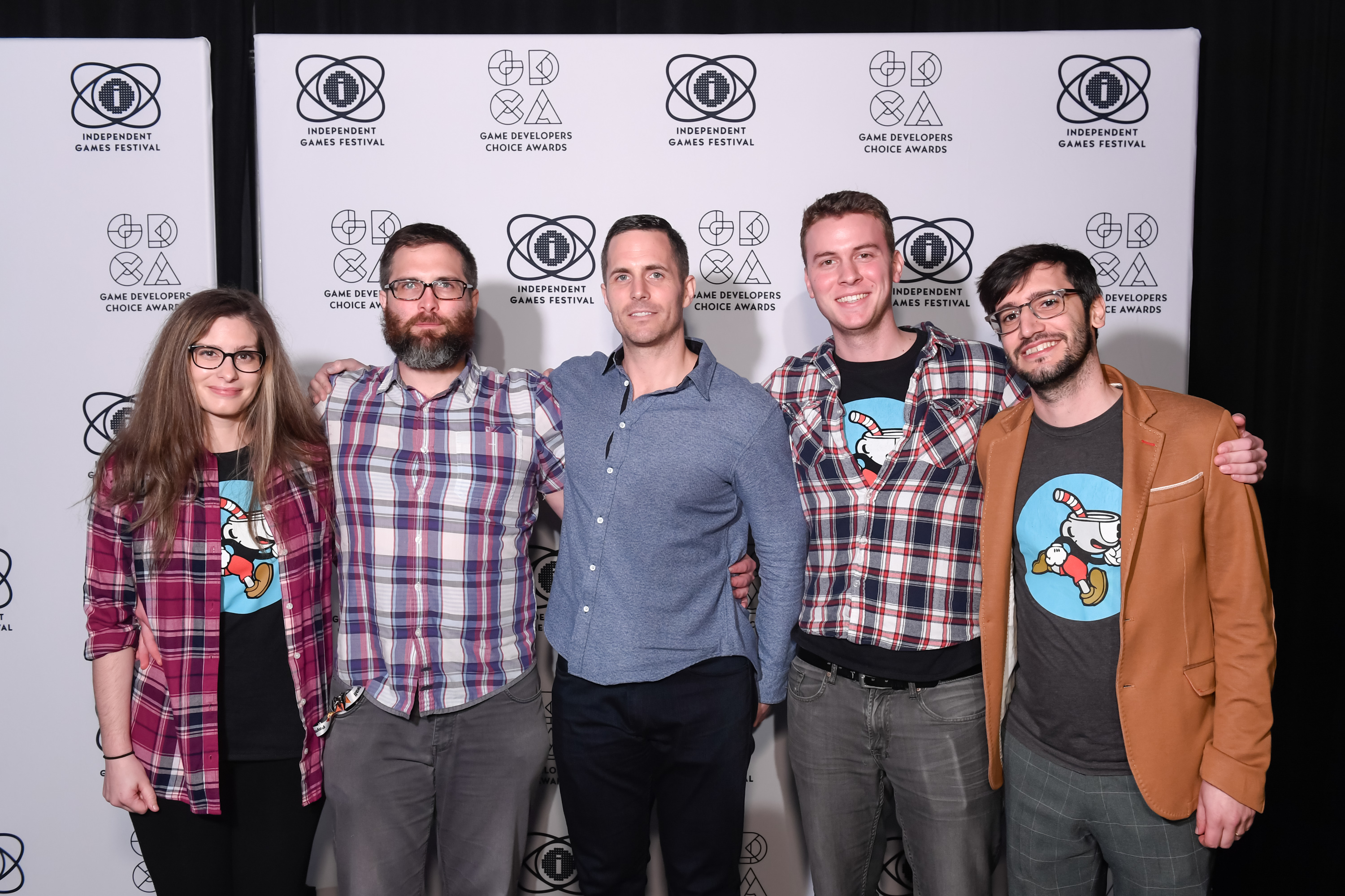 Members of StudioMDHR at the 2018 Game Developers Conference / Game Developers Choice Awards